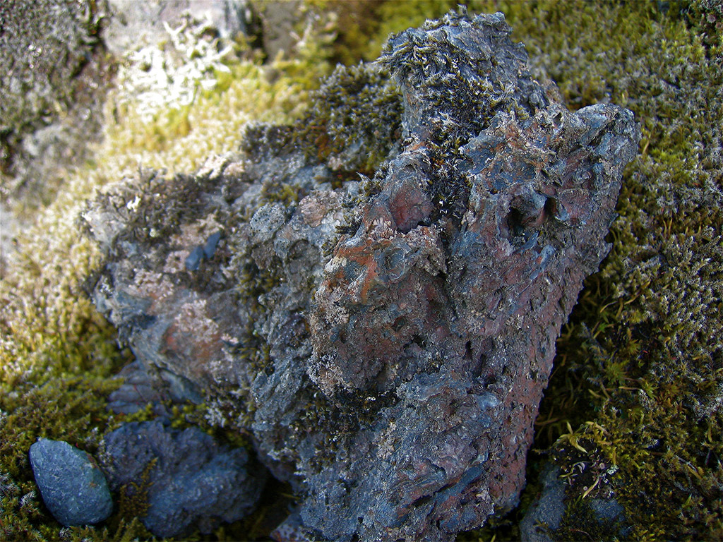 Volcanic rock erupted from the Tseax River Cone